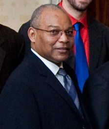 Chicago Bulls assistant coach Bernie Bickerstaff visits the White House with his team in 2009, before the team plays the Washington Wizards.